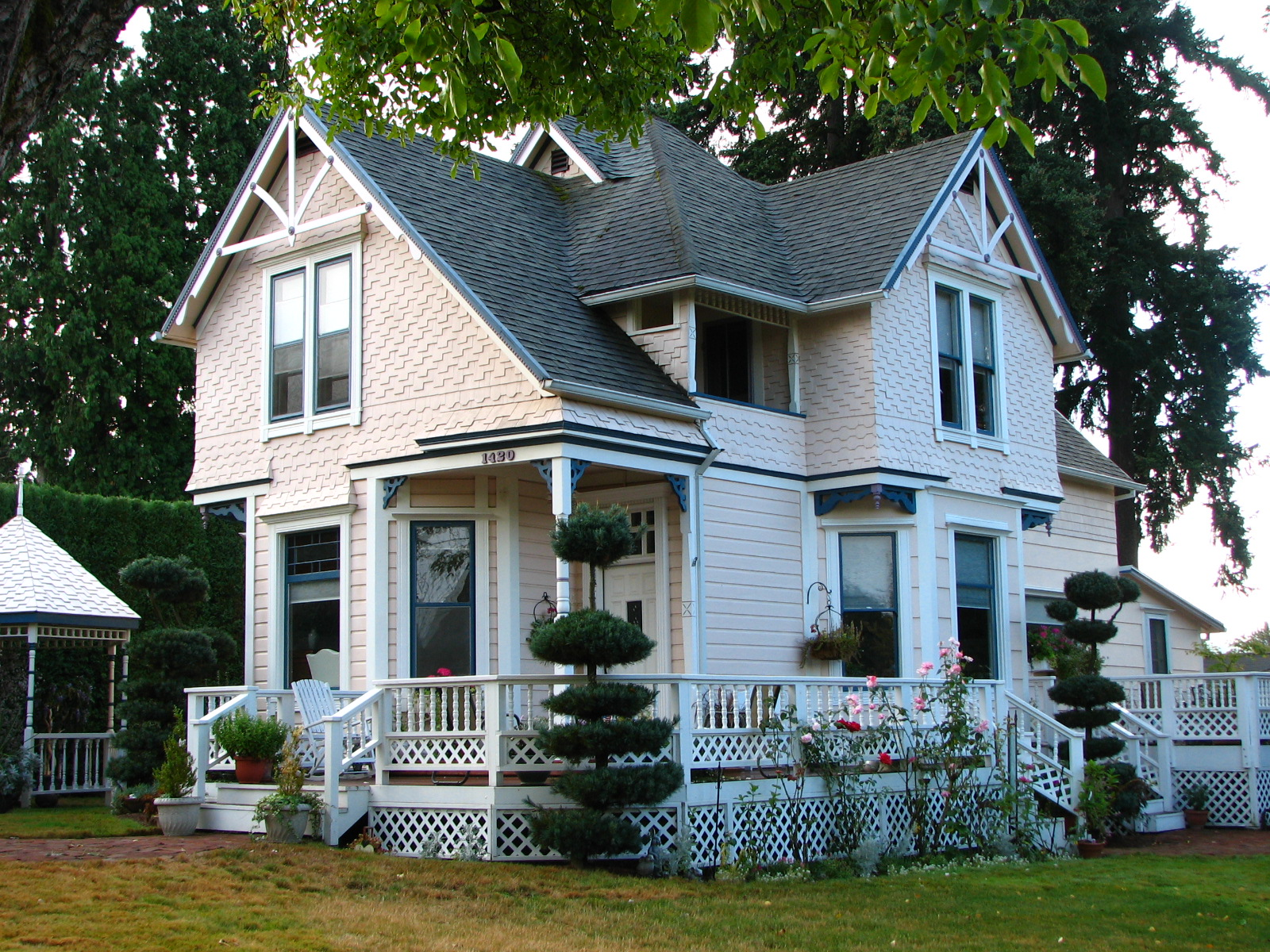 The historic Emanuel and Christina Anderson House (built ca. 1895), located at 1420 Southeast Roberts Avenue in Gresham, Oregon, United States, is listed on the US National Register of Historic Places (NRHP).